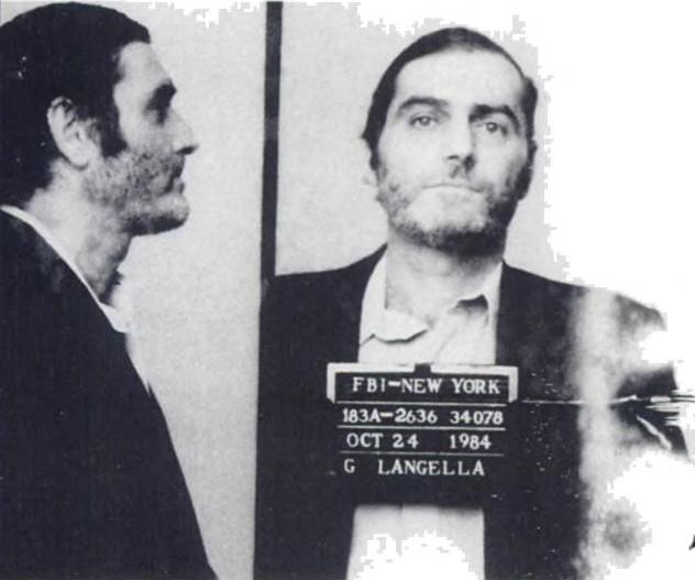 Mugshot of Gennaro Lengella taken in 1984 as part of the Mafia Commission case